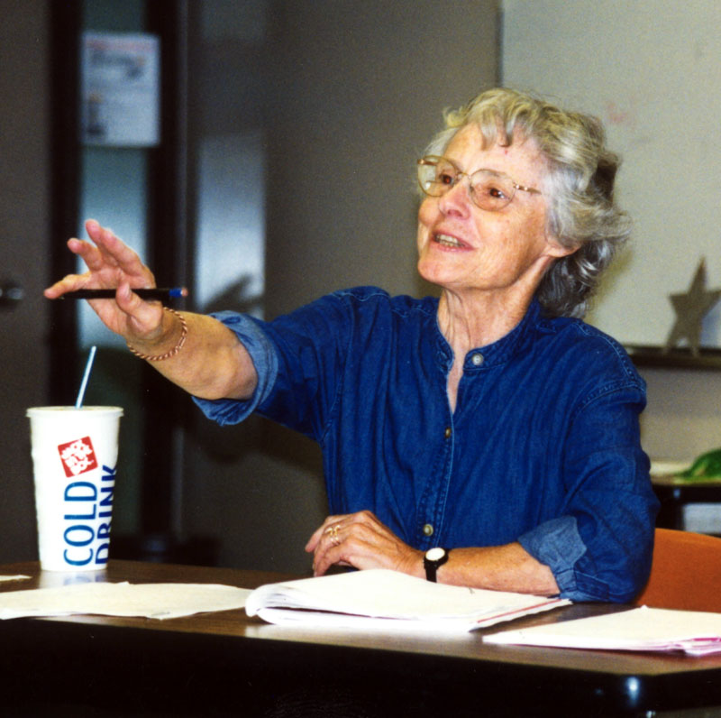 Carol Emshwiller at Clarion West, Seattle, WA. Scanned from a print June 2006.